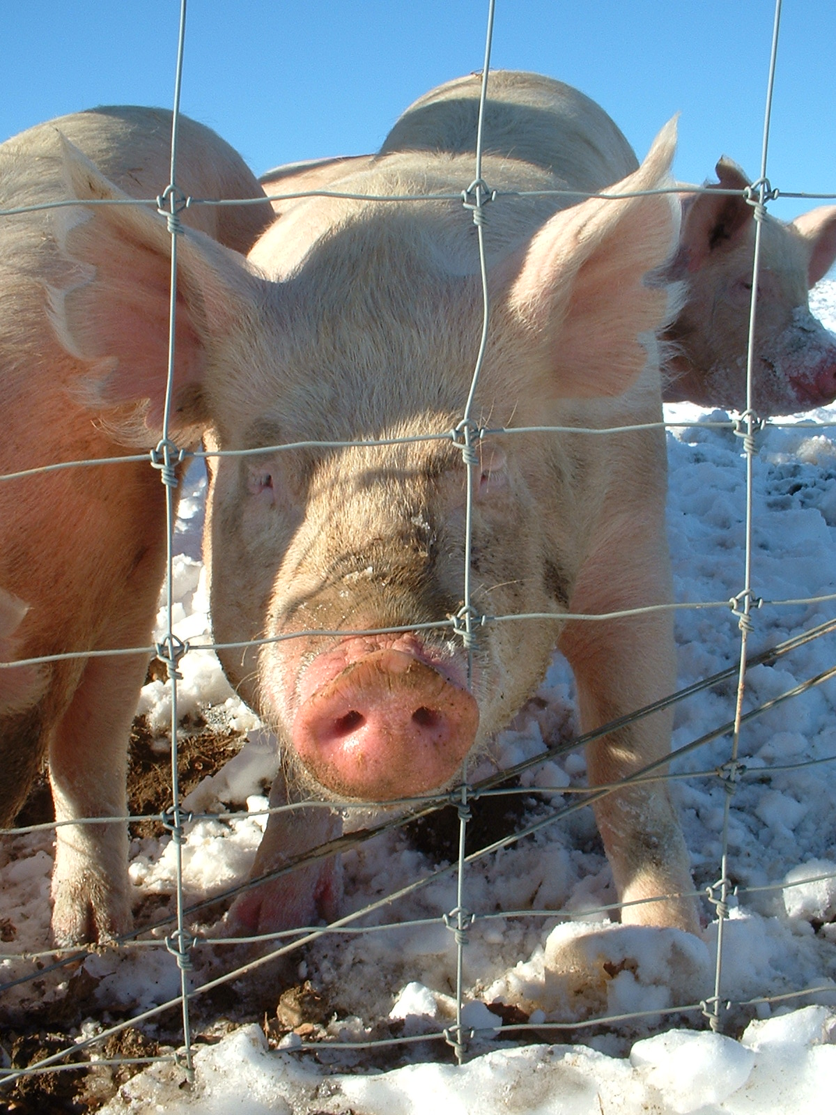 Pigs behind chickenwire owned by Penn State University, University Park, PA.